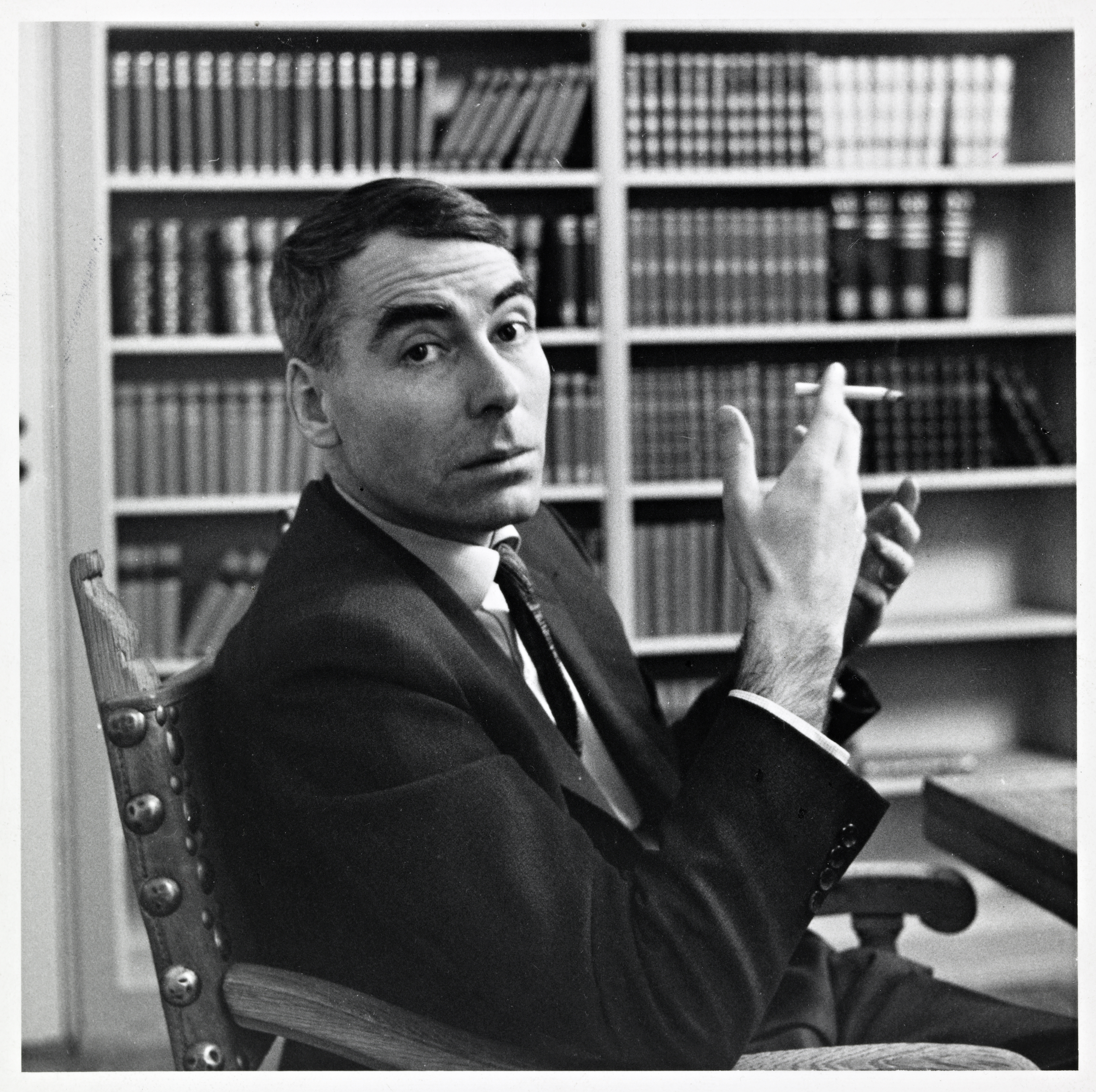 Beskrivelse / Description: Bildet stammer fra Gyldendals historiske portrettarkiv. Dato / Date: ukjent / unknown Fotograf / Photographer: ukjent / unknown Digital kopi av original / Digital copy of original: s/h papirpositiv Eier / Owner Institution: Nasjonalbiblioteket / National Library of Norway Lenke / Link: Bildesignatur / Image Number: blds_06531